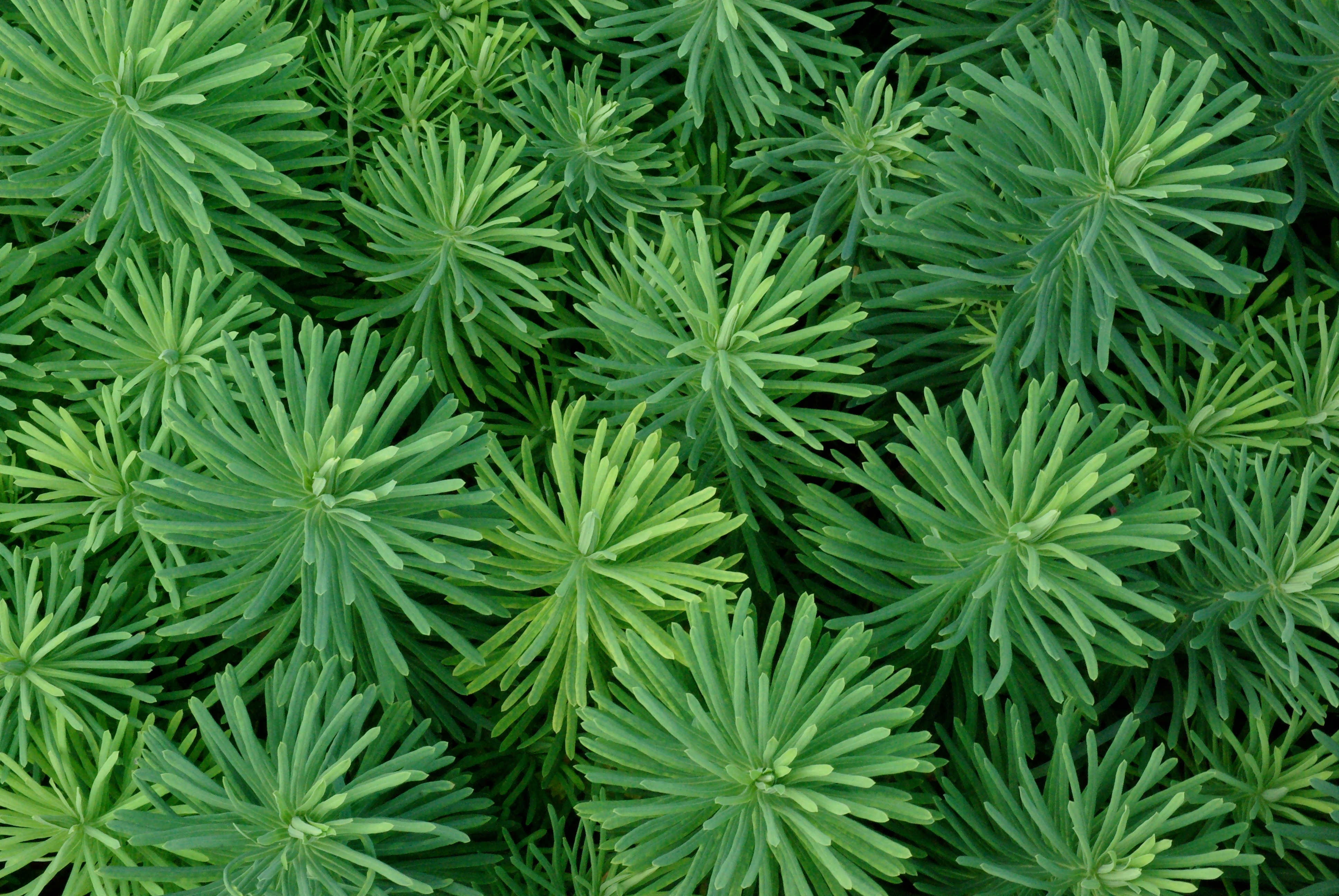 Spurge (Euphorbia cyparissias), in a garden France.